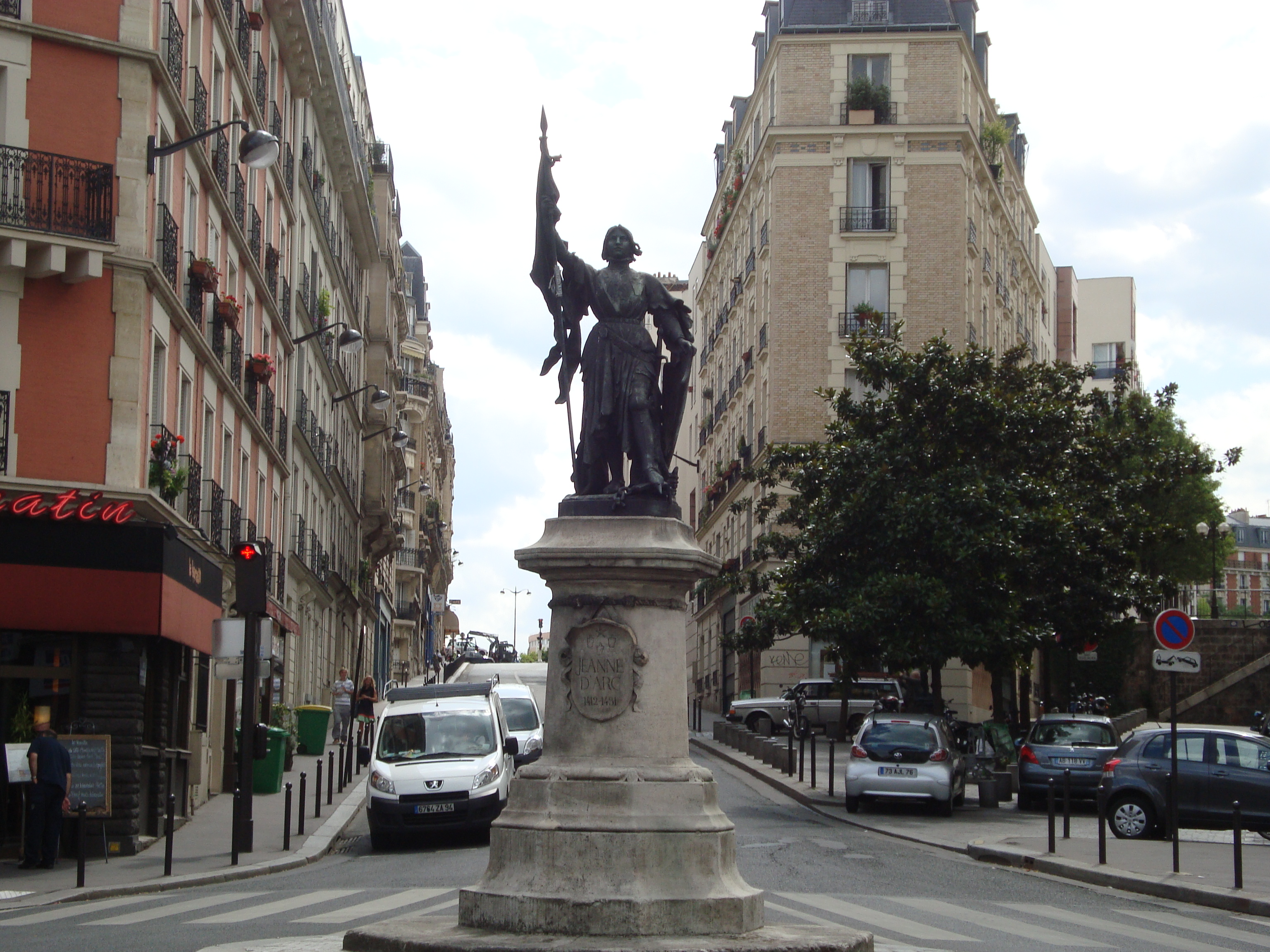 Émile Chatrousse (french, 1829-1896): Statue of Jeanne d'Arc (salon 1887), placed in 1891 in Paris on boulevard Saint-Marcel